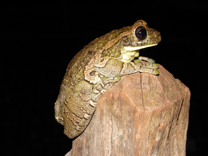 Trachycephalus venulosus